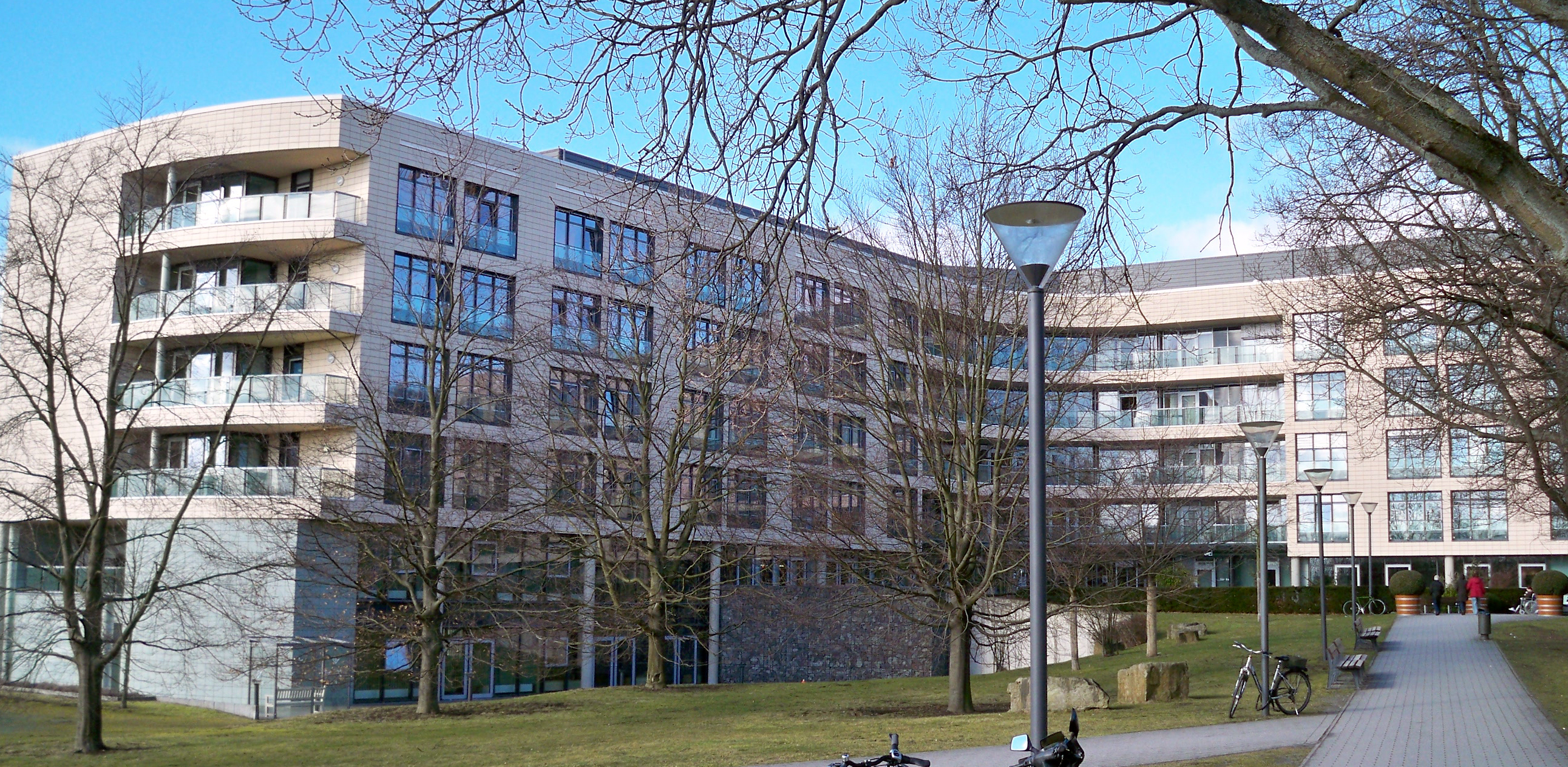 Wolfsburg, Lower Saxony, hospital, building with main entrance